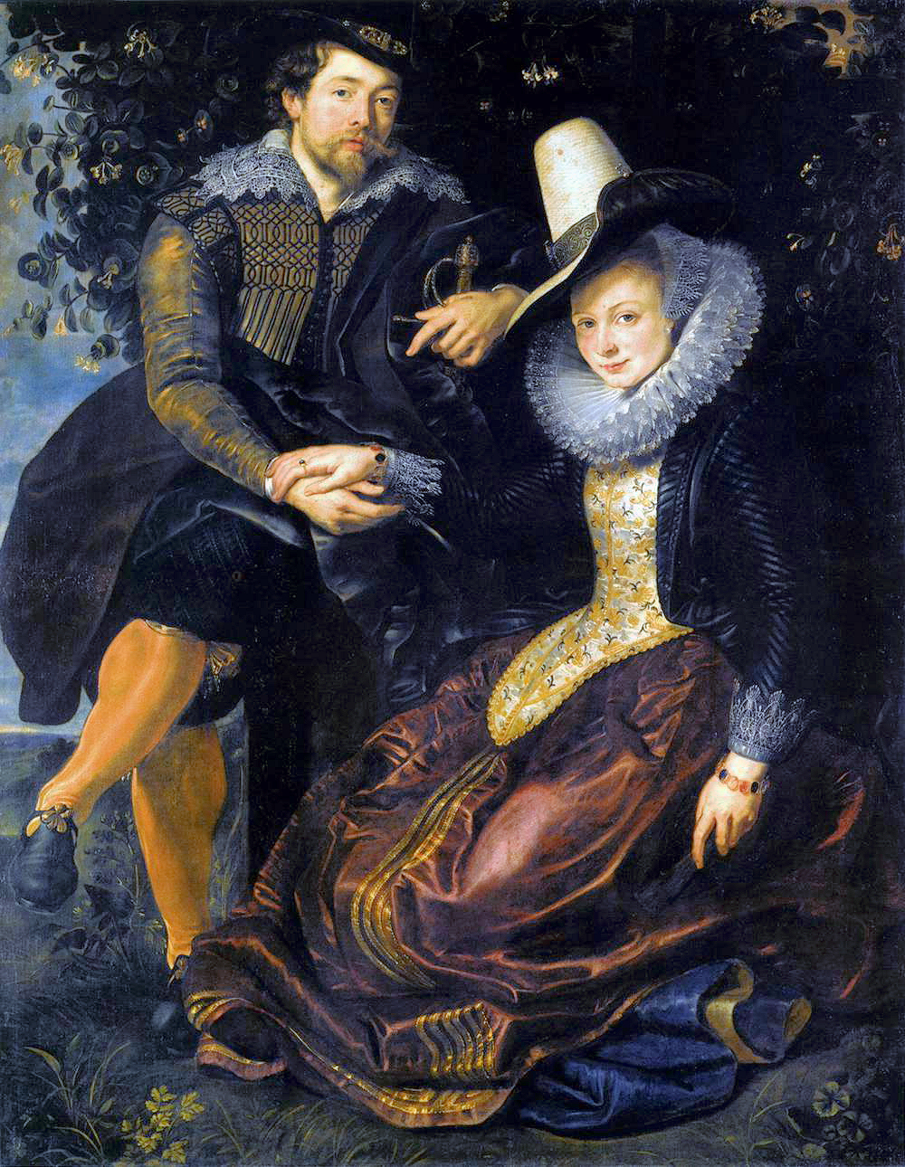 Directly after his return from Italy, the 32 year old Rubens married the 18 year old Isabella Brant. This double portrait, which broke new ground in portrait painting, was purportedly done shortly thereafter. Rubens did not however give up using traditional symbolism: Honeysuckle was a well known symbol for faithfulness and hands laid over one another ("dextrarum iunctio") have symbolized matrimony since ancient times. However these references are integrated into this snapshot-like scene in which middle-class contentedness, substantial affluence and strong affection are expressed.[1] ↑ Bayerische Staatsgemäldesammlungen